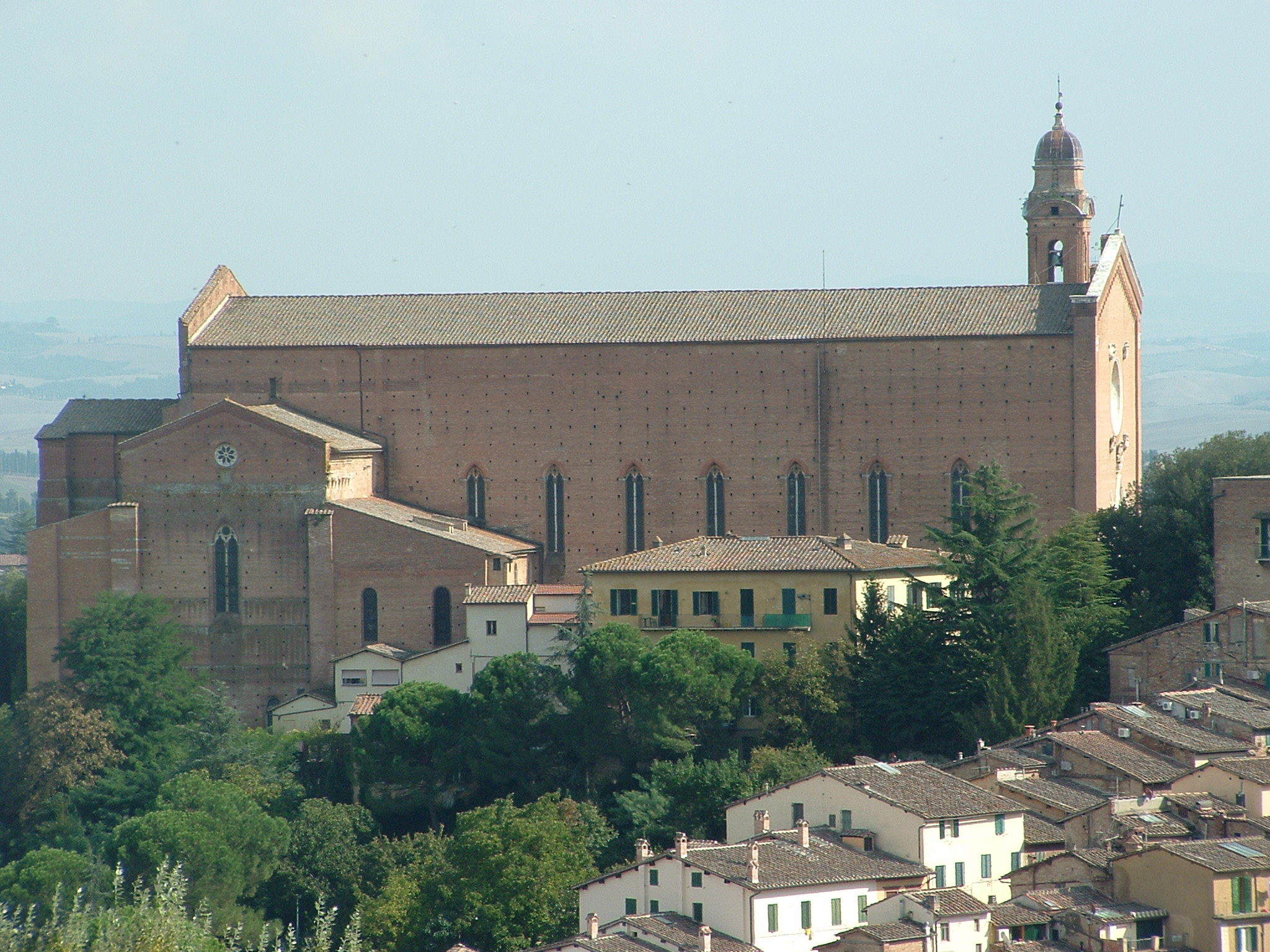 Basilica di San Francesco (Siena) seen from Via Campansi